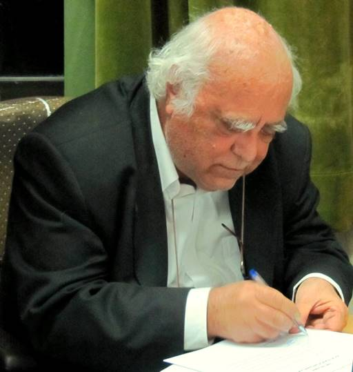 Dr. Mohammad Javad Shariat is writing something.